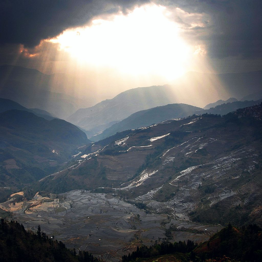 Sunset over the rice terraced mountains of the Hani people in Yuanyang County, Yunnan, China, in wintertime, when the paddies are left filled with water until planting in Spring.